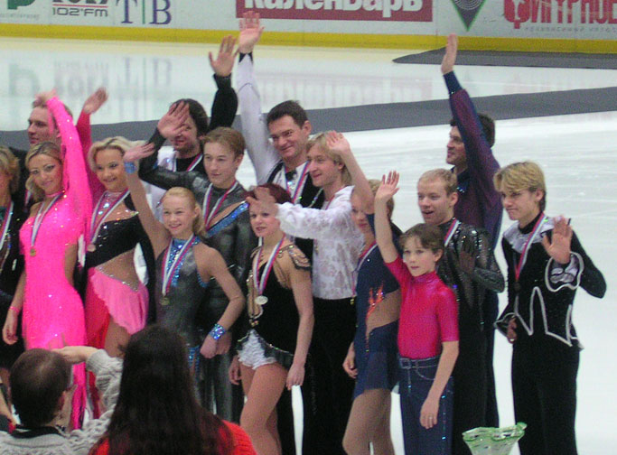 All medalists of Russian National Figure Skating Championchips 2004